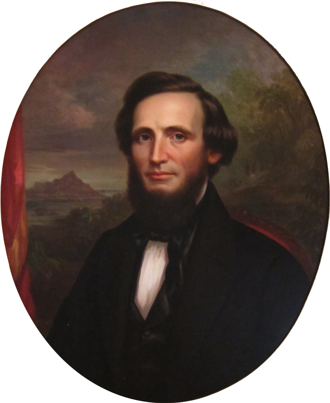 Portrait of William Little Lee, on display at Aliiolani Hale